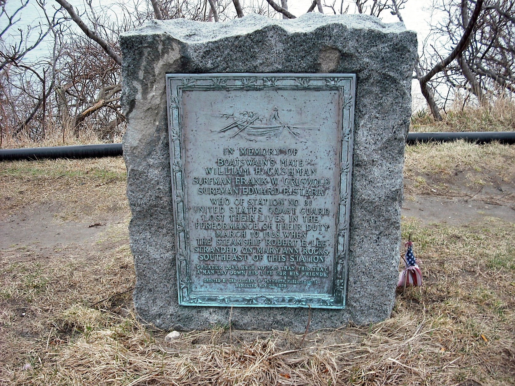 Memorial market at Manomet Point, Mass. honoring three Coast Guardsmen who drowned after rescuing efforts at the shipwrecked SS Robert E. Lee on March 10, 1928.